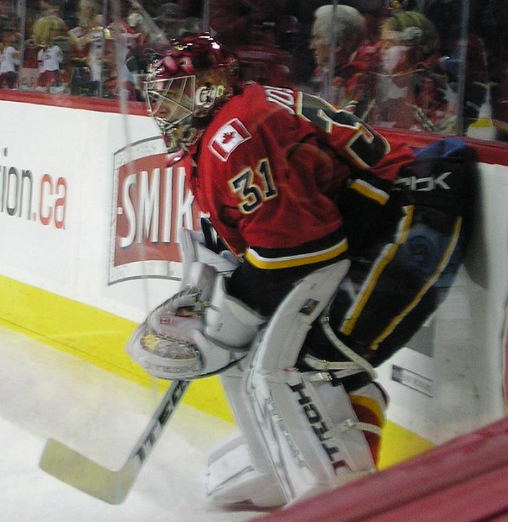 Curtis Joseph warming up prior to a Calgary Flames game on February 9, 2008